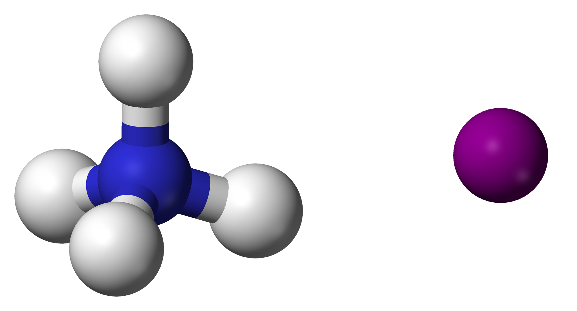 Ball-and-stick model of ammonium iodide, showing an ammonium cation (left) and an iodide anion (right).